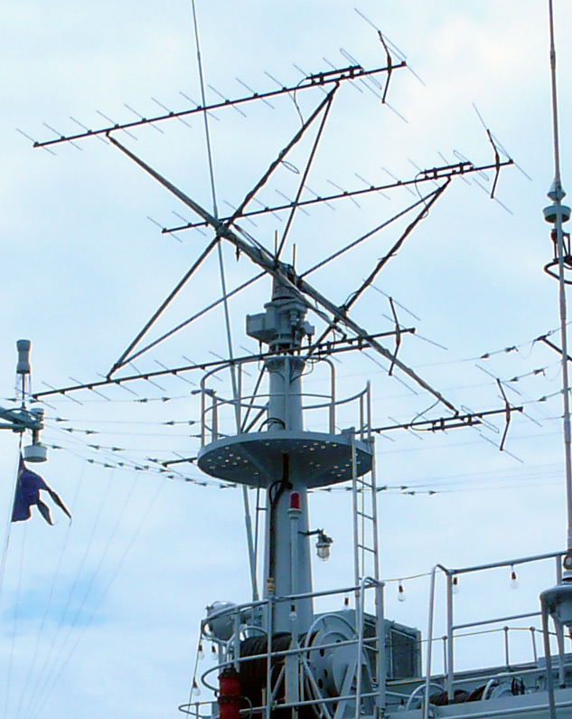 Author: Koxinga CDF Photo taken at IMDEX 2007 on PLA-N Jiangwei FFG during visit.